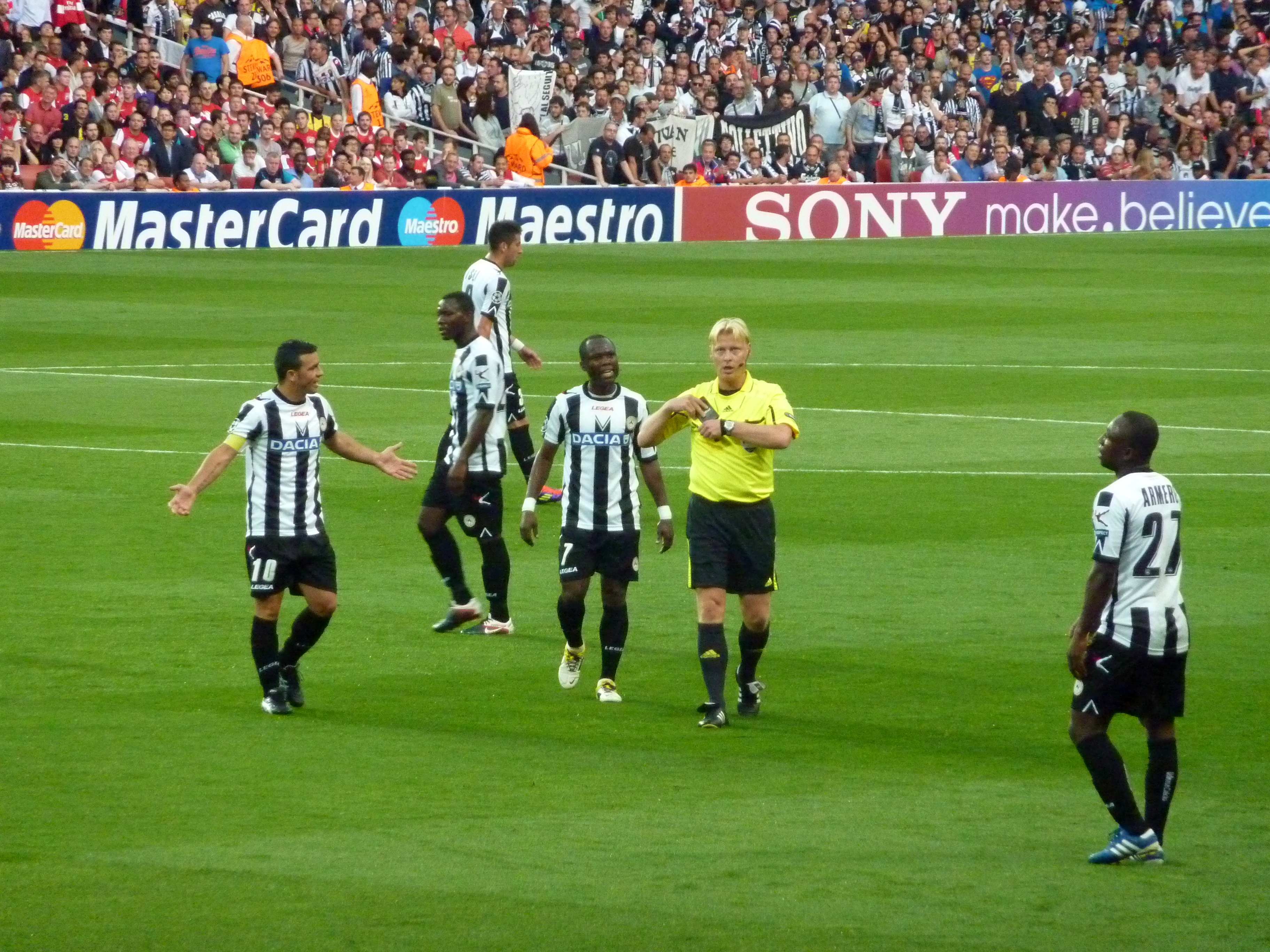 London (England), Emirates Stadium, August 16, 2011. Arsenal F.C. v Udinese Calcio 1-0, 2011–12 UEFA Champions League play-off, 1st leg.